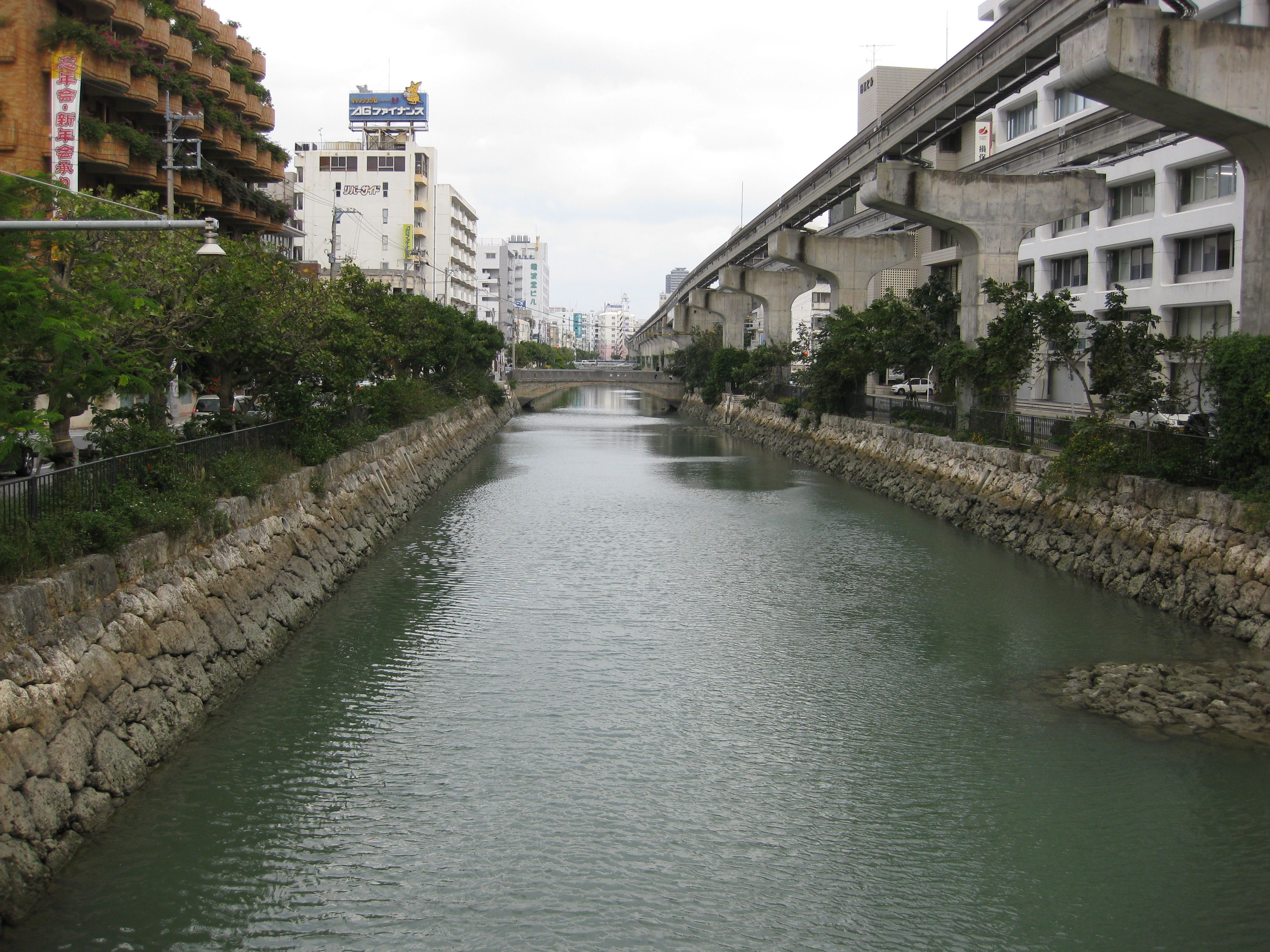 Kumojigawa River in Okinawa, Japan